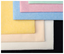 Airlaid-material sample